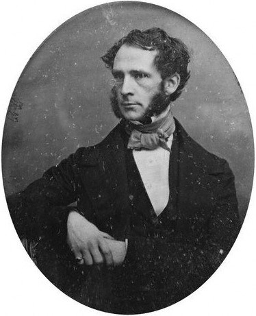 daguerreotype of Frederick William Robertson